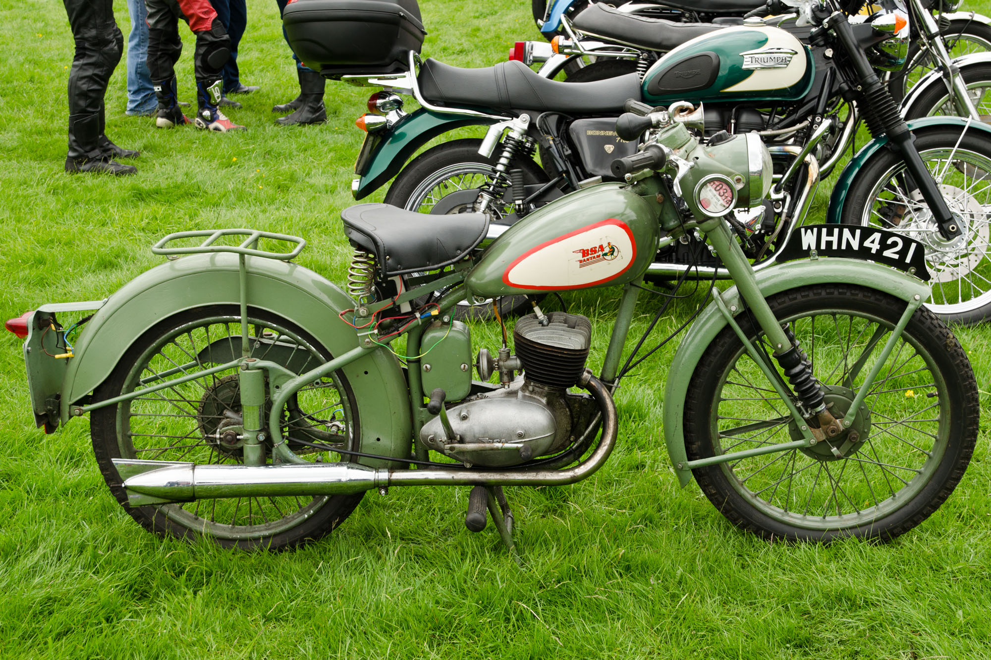 Capesthorne Hall Classic Car Show 25/05/2014